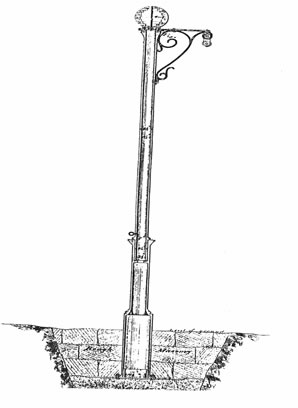 Cast iron light pole erected at Fort Washington in 1857 to help with navigation on the Potomac River.